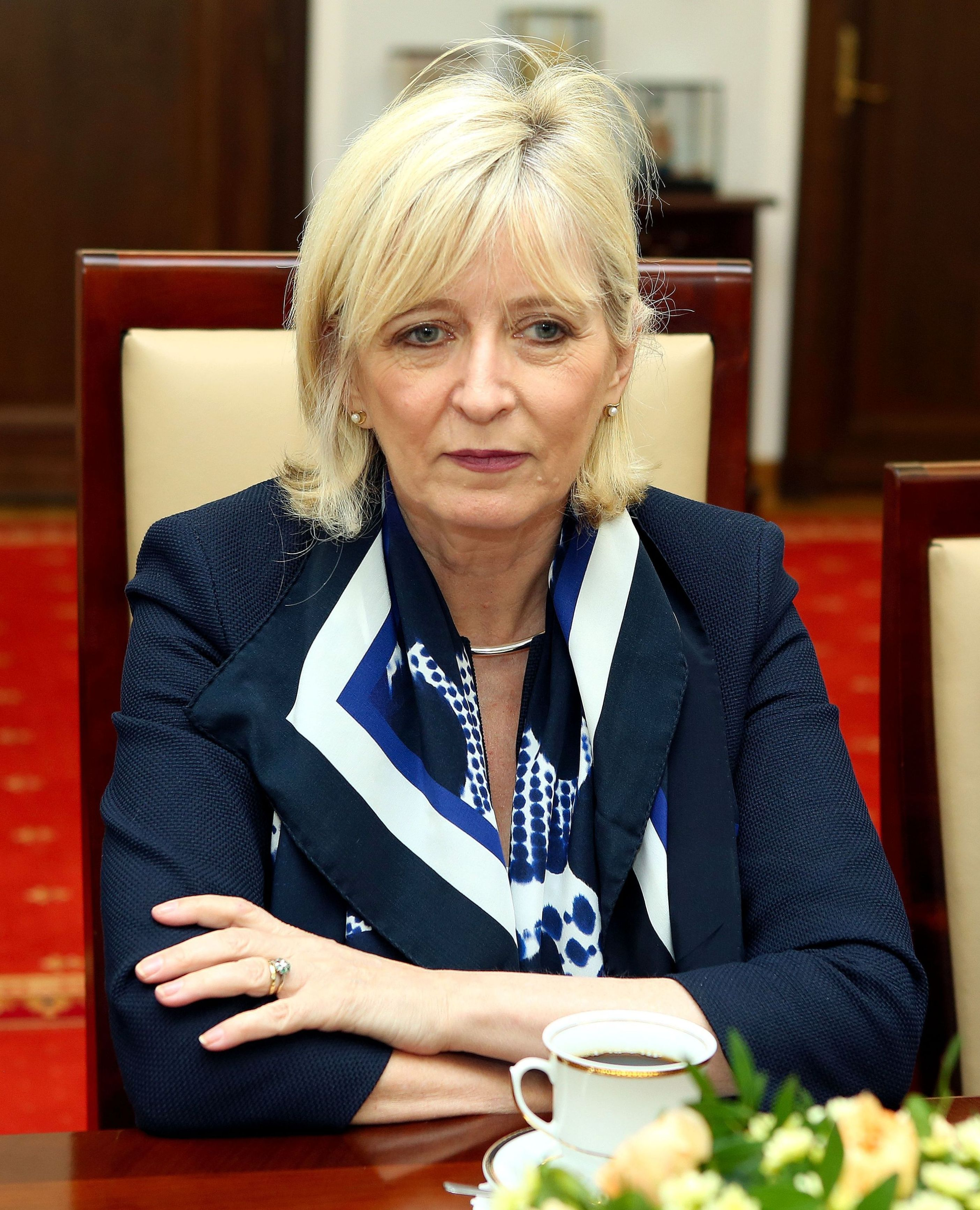 European Ombudsman Emily O'Reilly in the Polish Senate